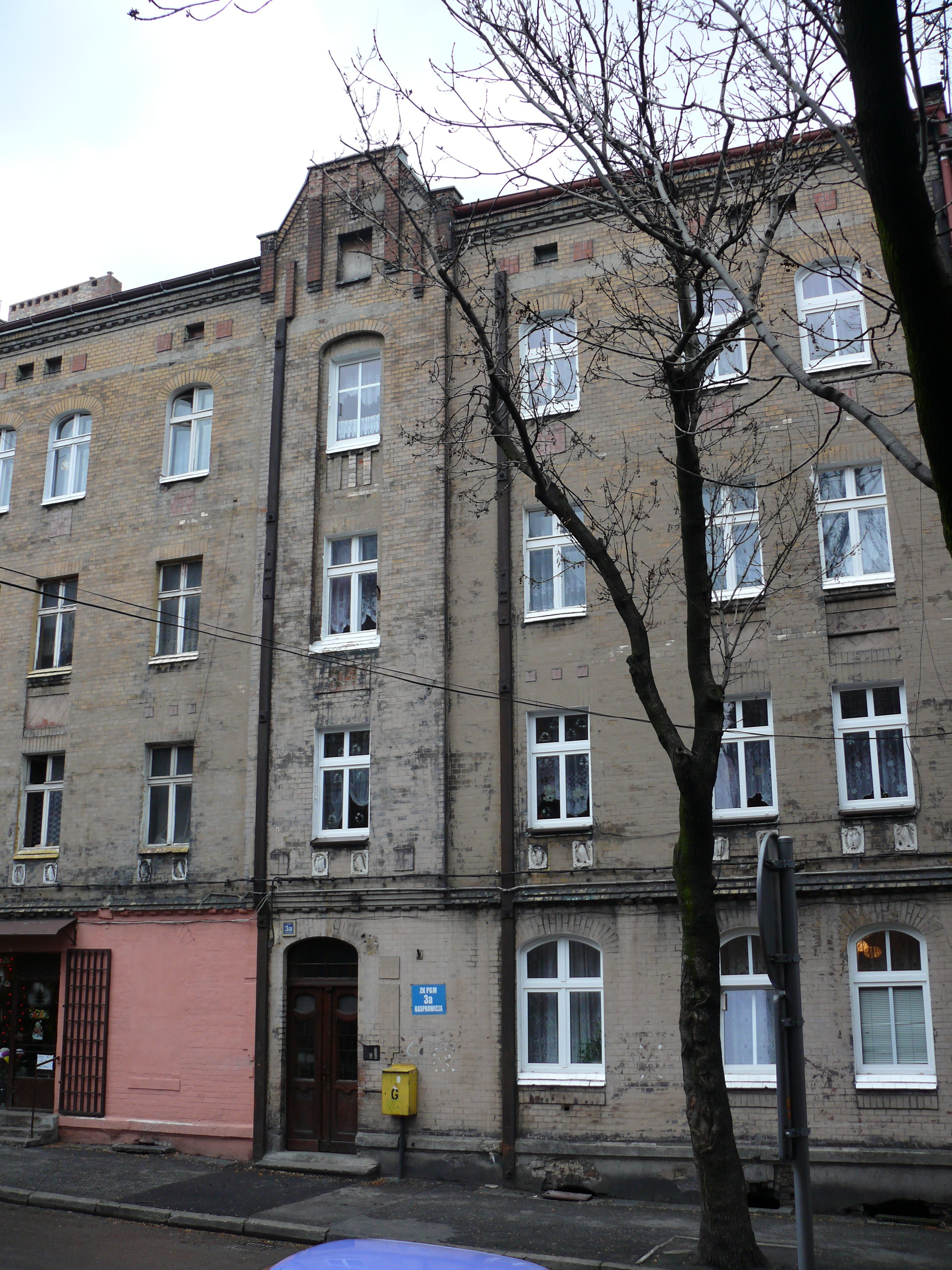 Hanna Schygulla childhood home in Chorzów, Upper Silesia